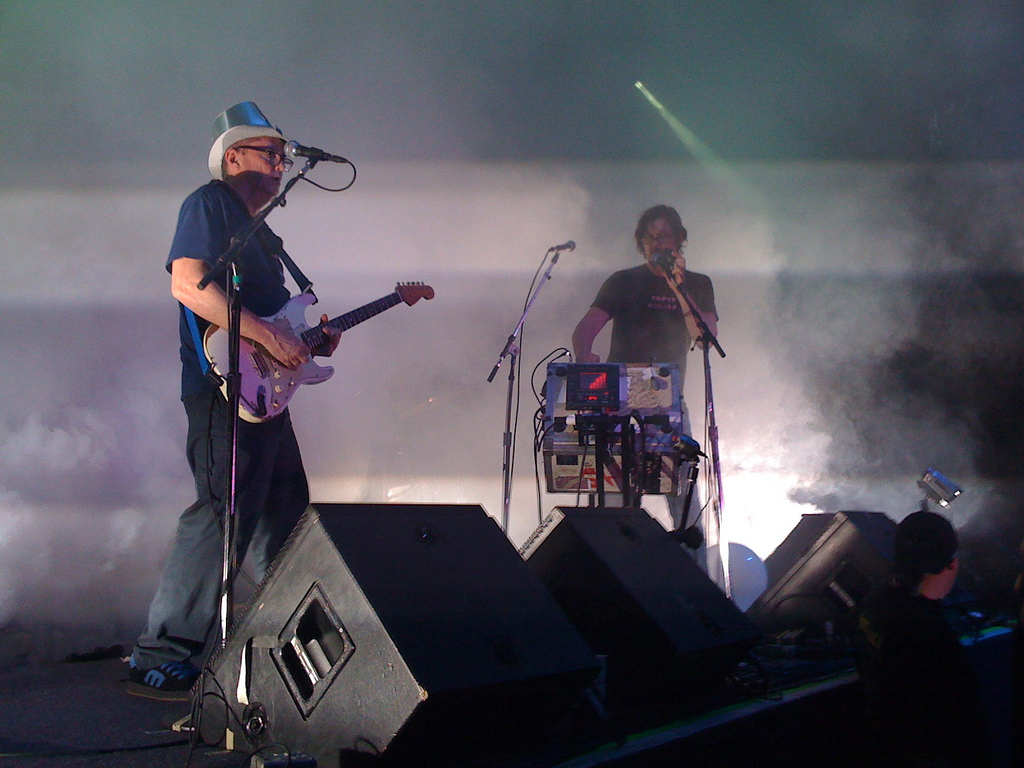 The Butthole Surfers performing on January 1, 2009 at the Fillmore in San Francisco, California